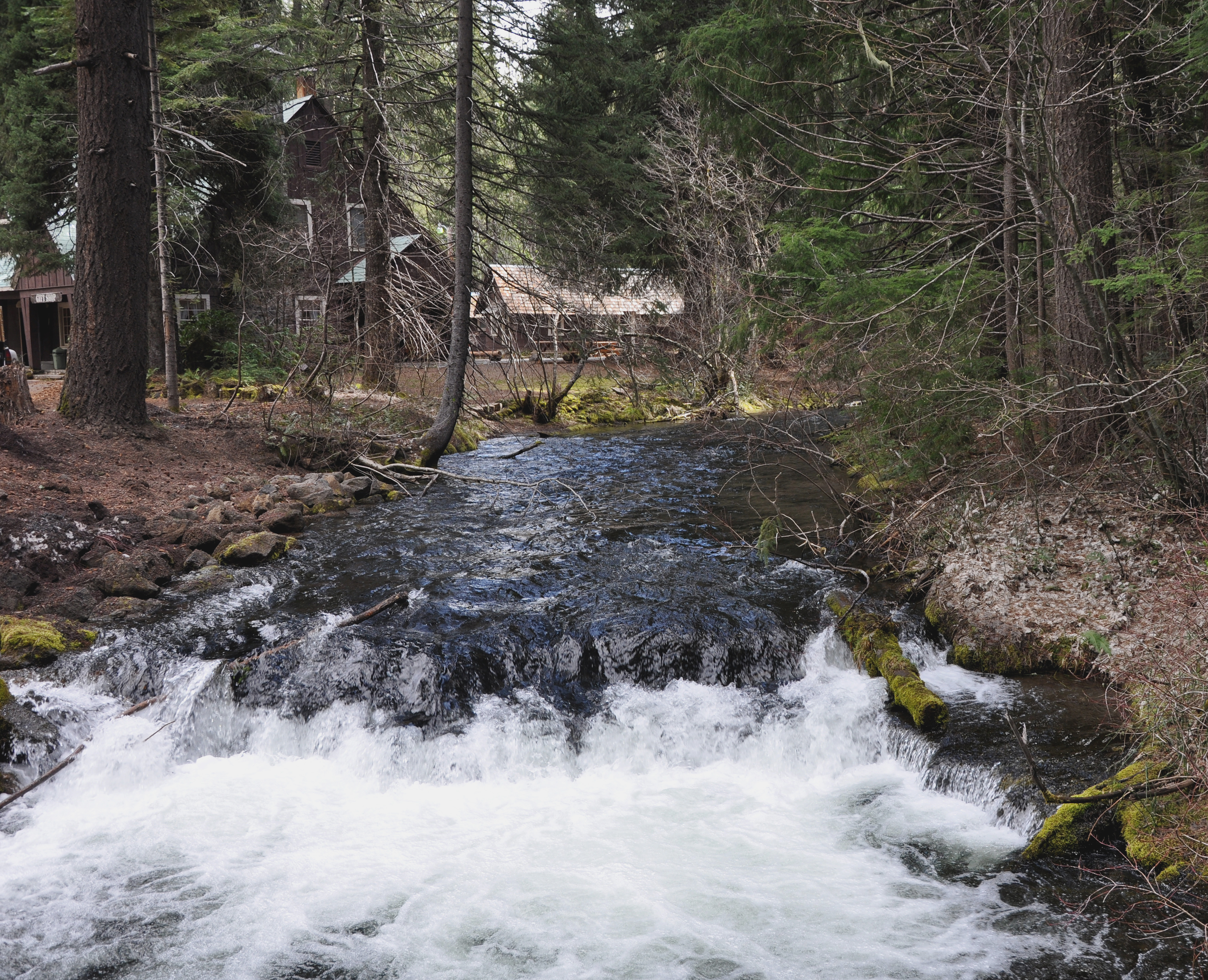 Union Creek in Union Creek, an unincorporated community and historic district in the U.S. state of Oregon. The Union Creek Lodge, part of the historic district, is to the left.